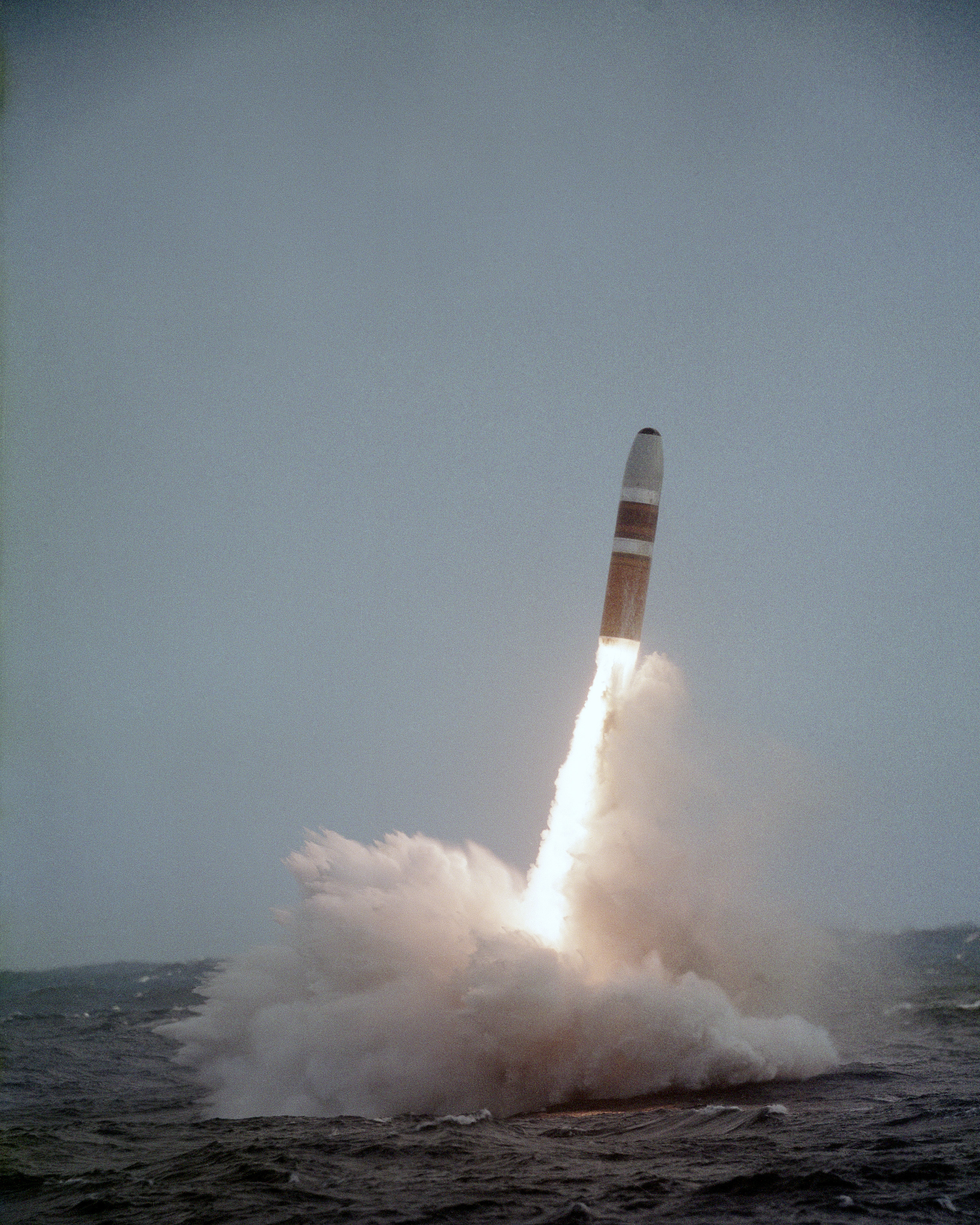 A UGM-96 Trident missile clears the water during the 20th demonstration and shakedown launch from the nuclear-powered strategic missile submarine USS MARIANO G. VALLEJO (SSBN 658). This is the 45th flight of the Trident missile. Date Shot: 9 Oct 1984. (Service Depicted: Navy; ID: DFSC8512090)